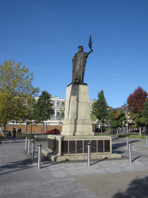 Crewe war memorial In 2006, amidst much controversy and tens of thousands of dissenting voices, Crewe war memorial was moved from the Market Square where it had stood since 1924, to the square in front of the Municipal Buildings. Britannia now faces the council offices rather than France, which is usual.